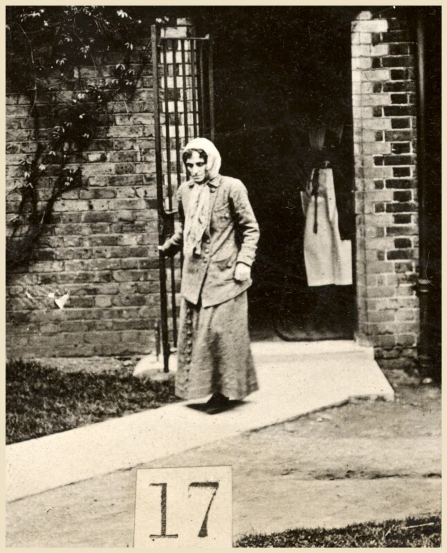 An image created by the United Kingdom's Criminal Record Office and then made available at the UKs National Portrait Gallery. These date from c.1914 when the suffragettes had an arson campaign before WW1